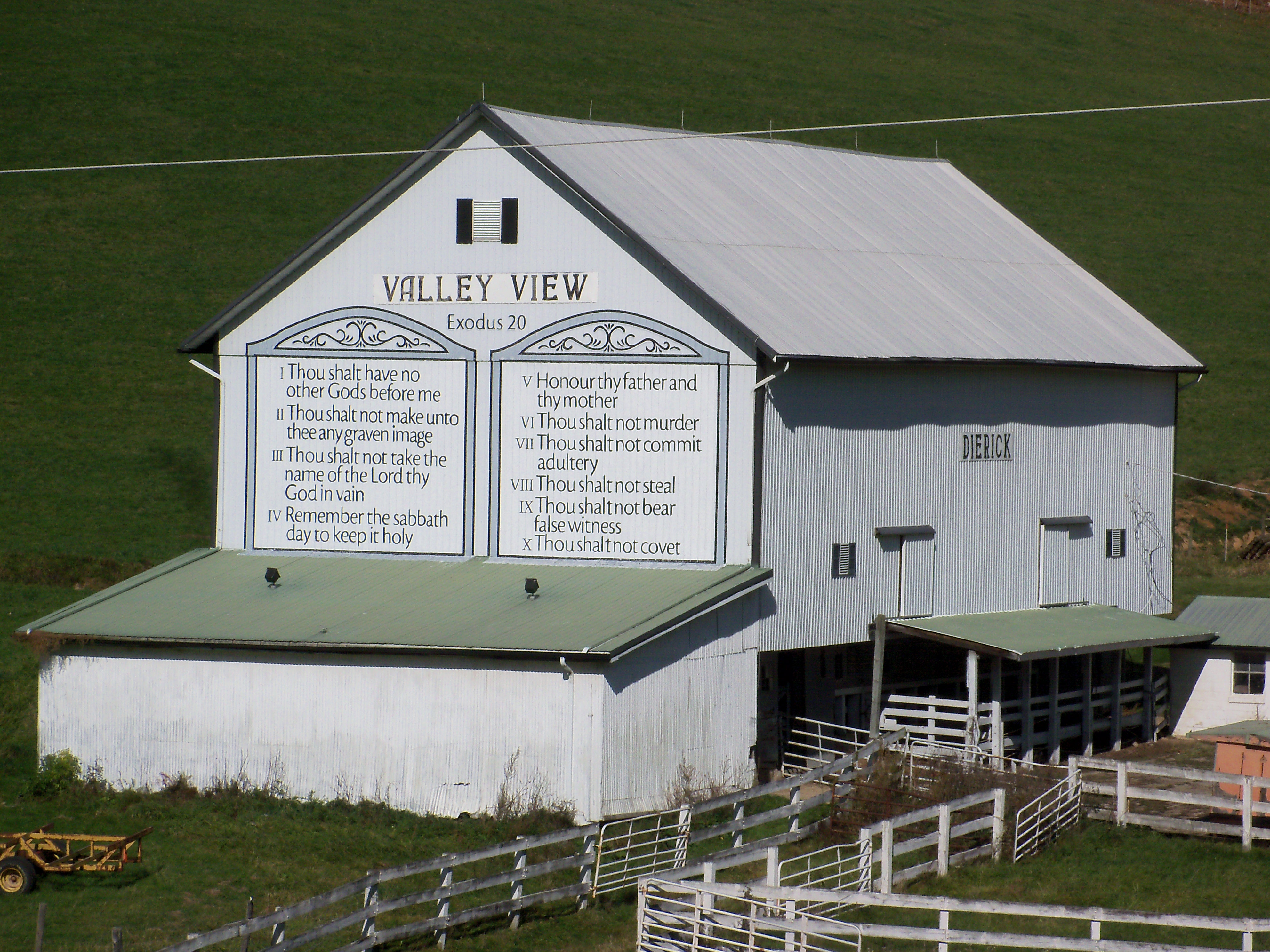 A barn in Rose Township, Carroll County, Ohio with the Ten Commandments painted on a side. Seen from Fargo Road just east of Magnolia Road between Magnolia, Ohio and Dellroy, Ohio.